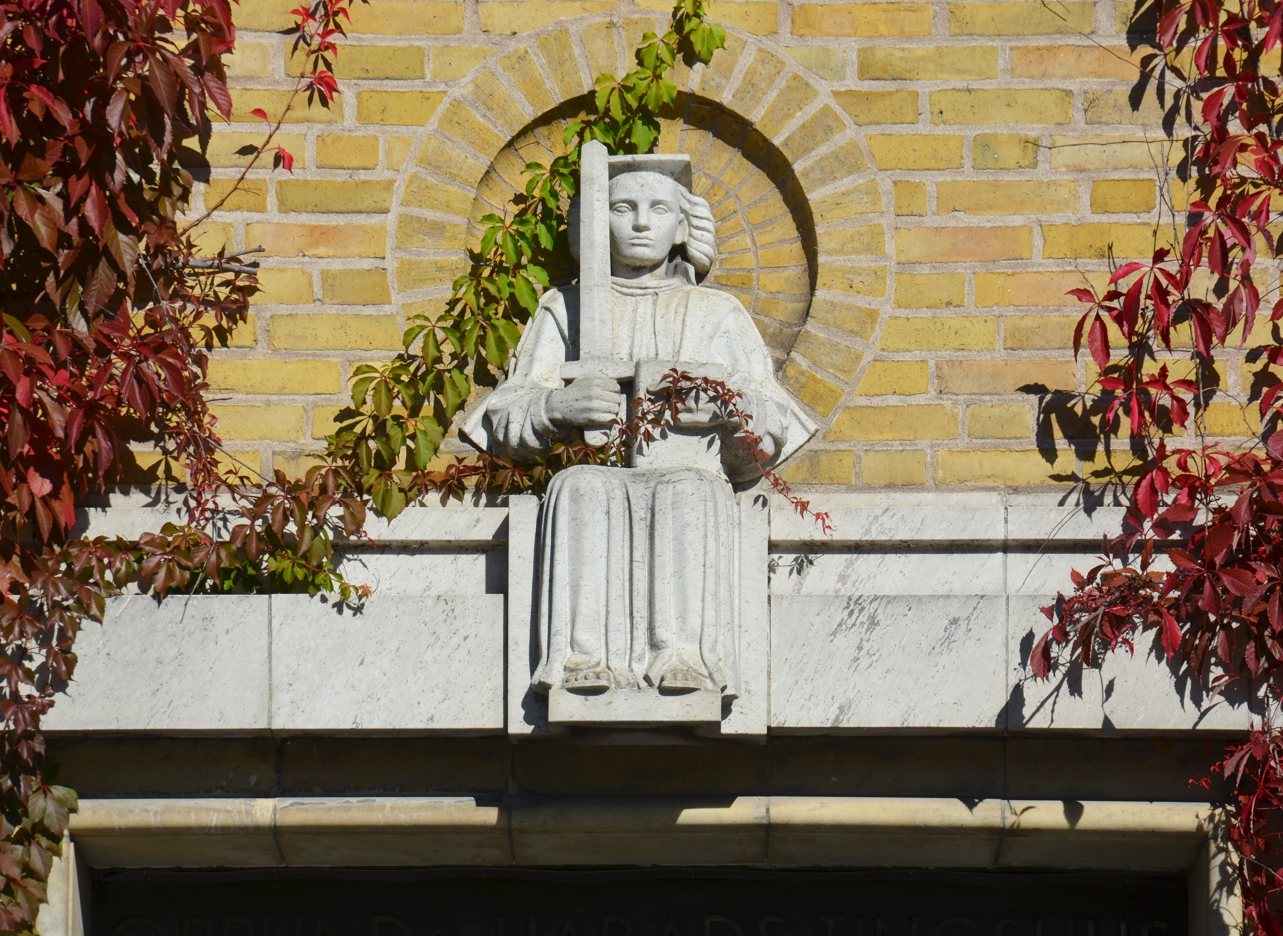 Old Court house at Katrineholm